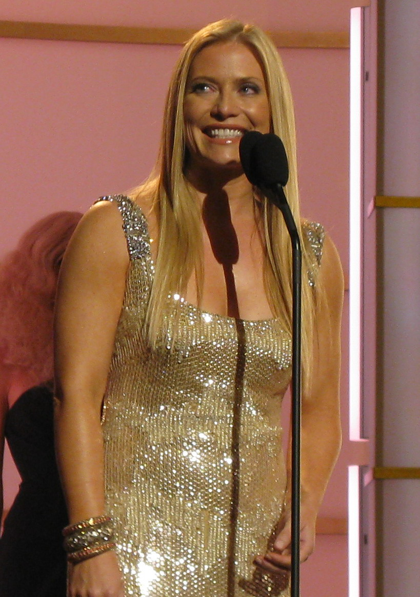 Actress Emily Procter presenting at the 2008 Fashion Rocks event